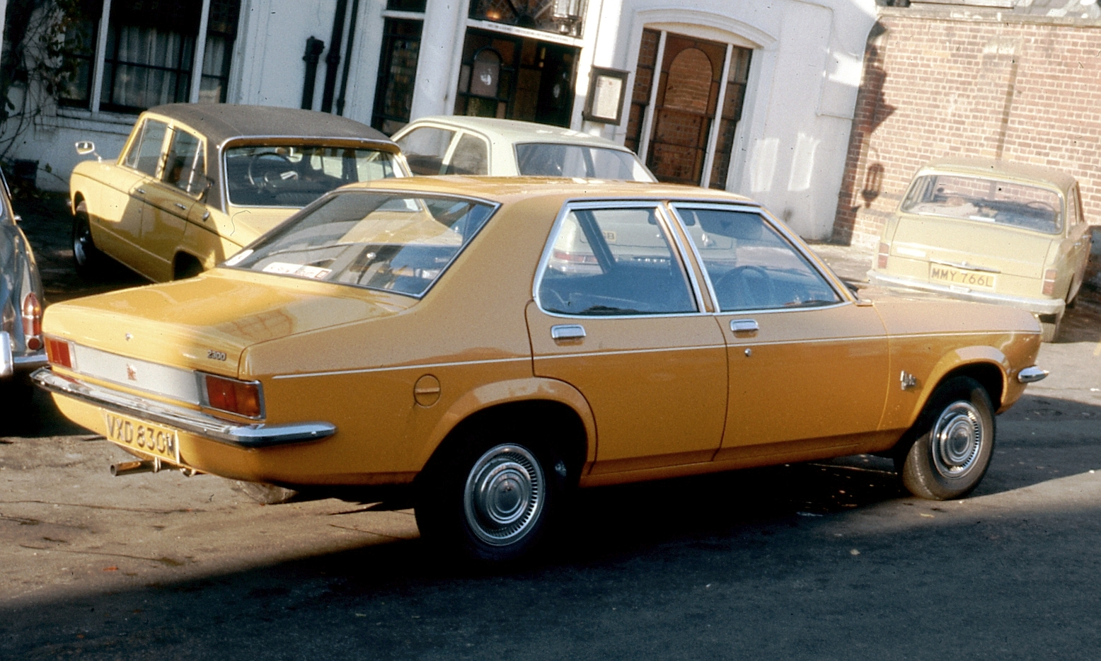 Vauxhall Victor FE shortly after launch